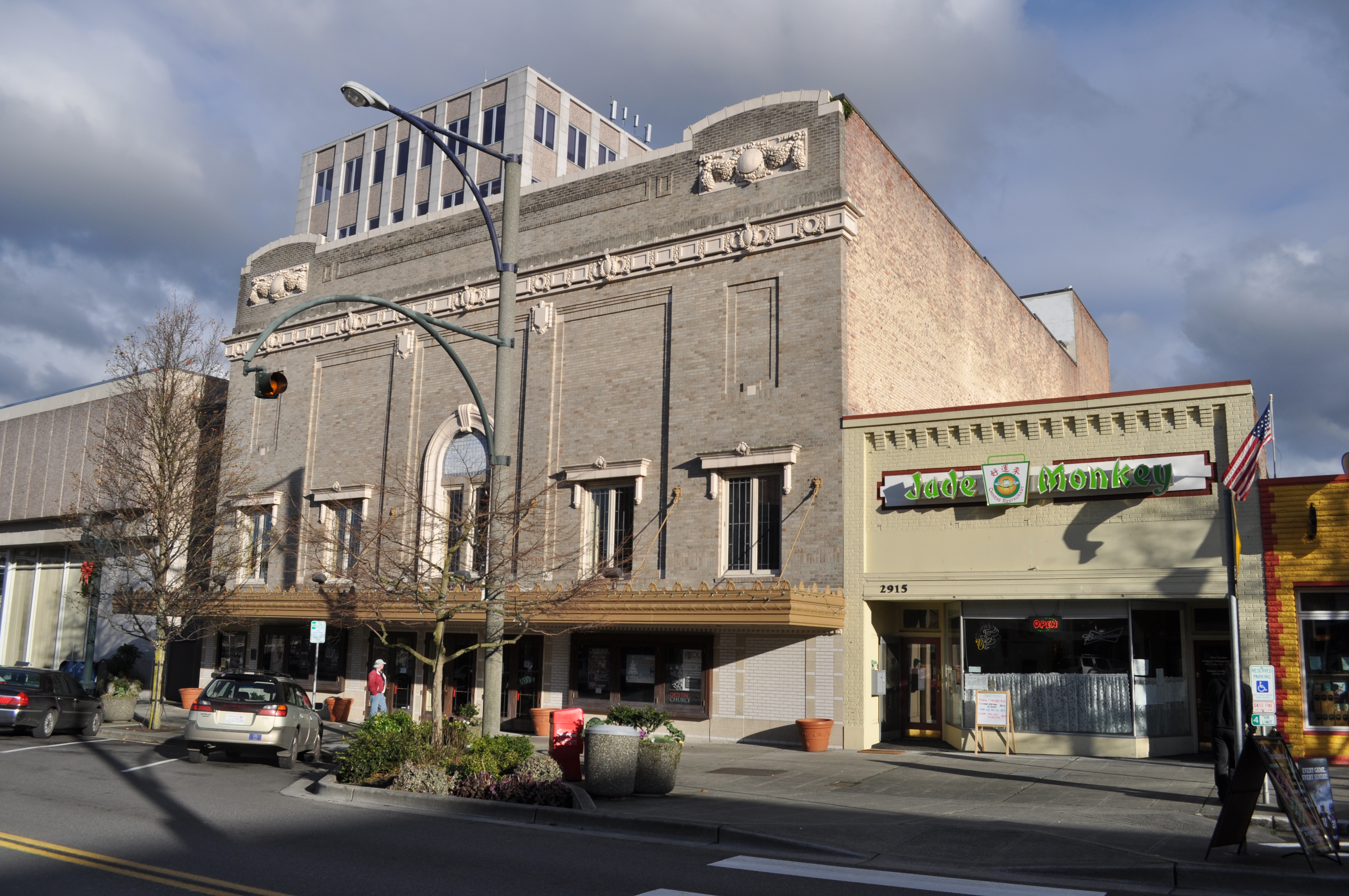 Everett Theatre, Everett, Washington. (Exterior.) Opened 1901 as an opera house; gutted by fire 1923, rebuilt 1924; remodeled 1952 and 1979 (the latter as a triplex movie theater), empty after 1989, reopened in the late 1990s. [1] [2]